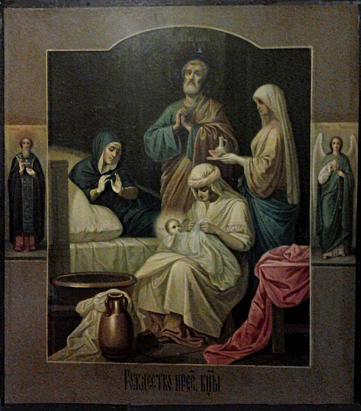 This is a copy of the icon. Donated churchwarden Sergei Semenov Terentyev, later hereditary honorary citizen of St. Petersburg merchant guild 2.Original icons made artist Makovsky and it is stored in the Moscow Cathedral of Christ the Savior.